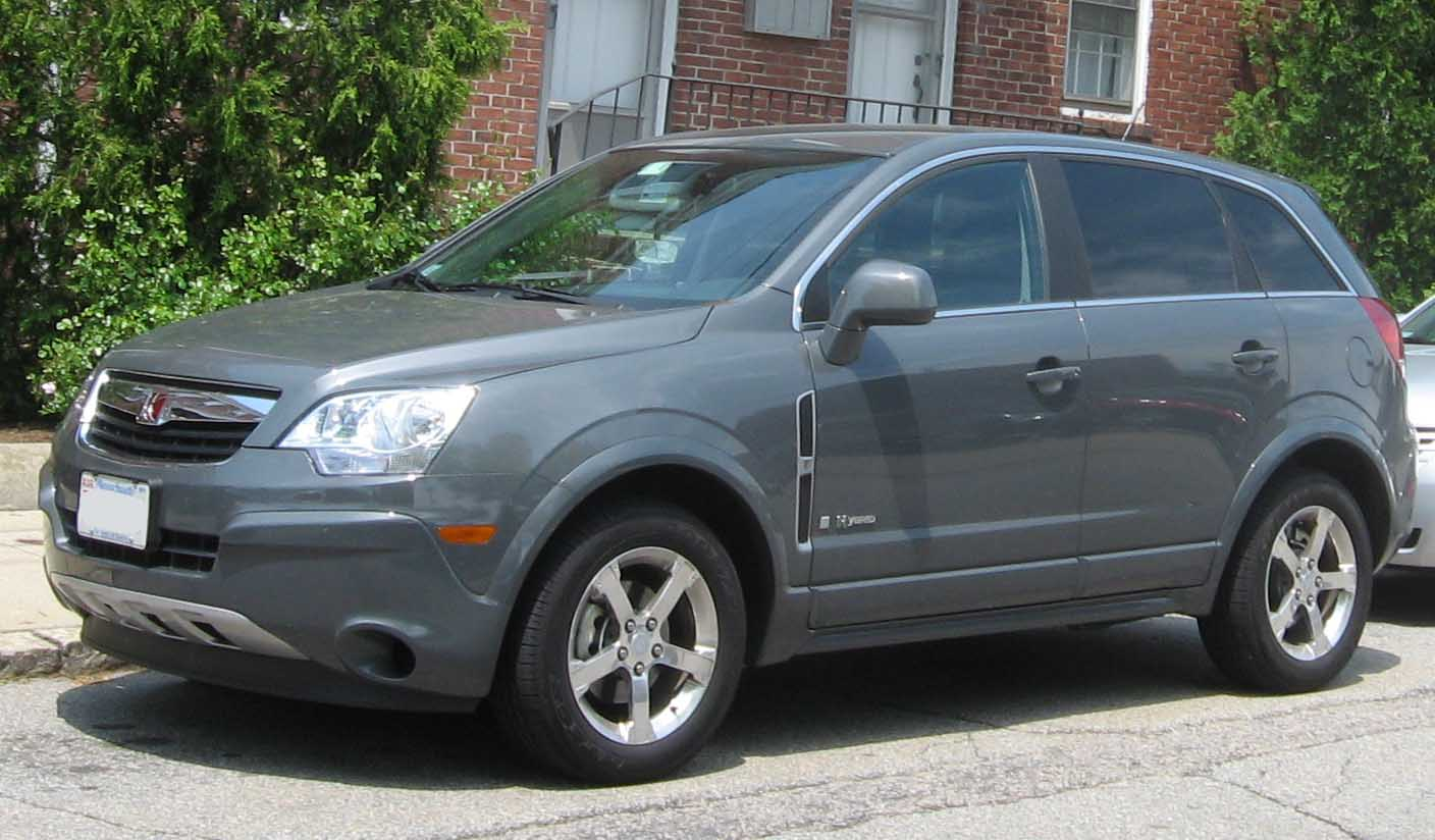 2008 Saturn Vue photographed in Watertown, Massachusetts, USA.